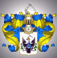 Coat of Arms of Tulubyevy family